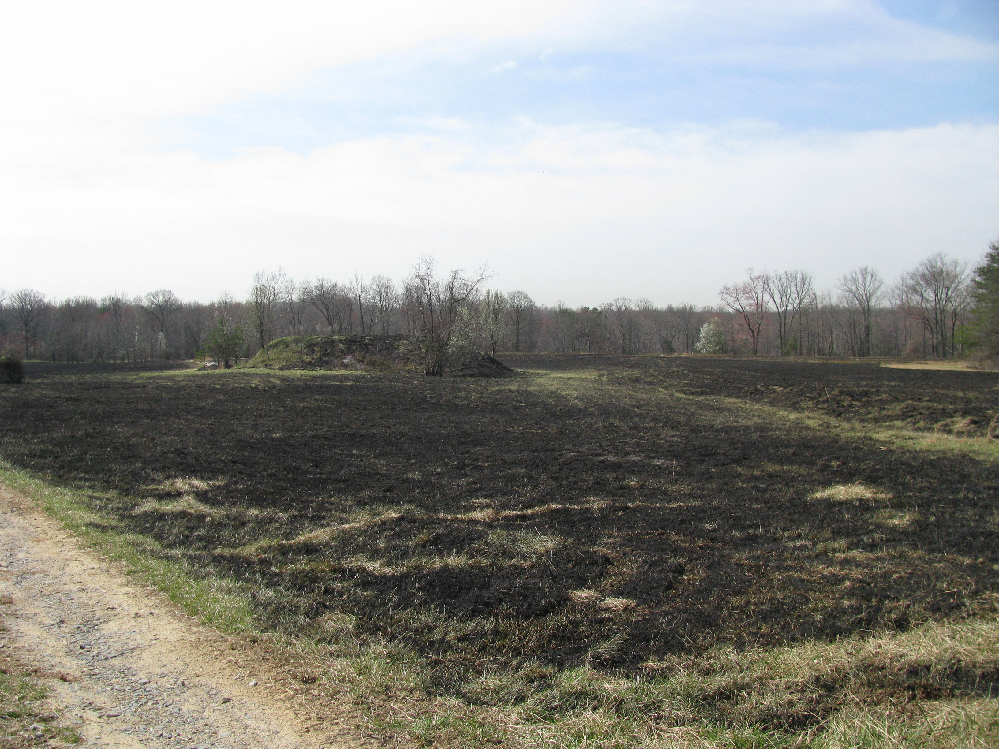 Laurel, Maryland, April 15, 2012: This field near Blue Heron Pond recieved a controlled burn treatment the day before the photo was taken. The burn, at Patuxent Research Refuge, was to maintain native grasslands, remove woody vegetation, and control invasive species such as Korean Lespedeza. Credit: Sandy Spencer/USFWS